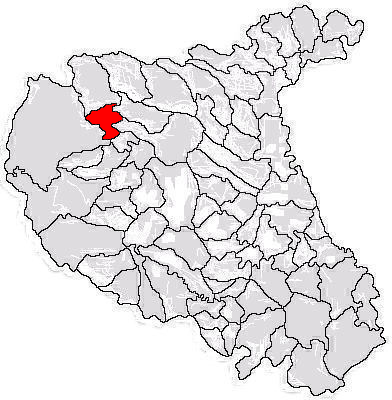 Map of limits of commune in Vrancea County